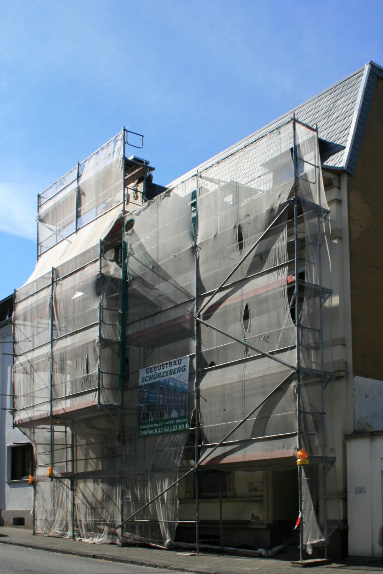 Cultural heritage monument No. Sch 025 in Mönchengladbach